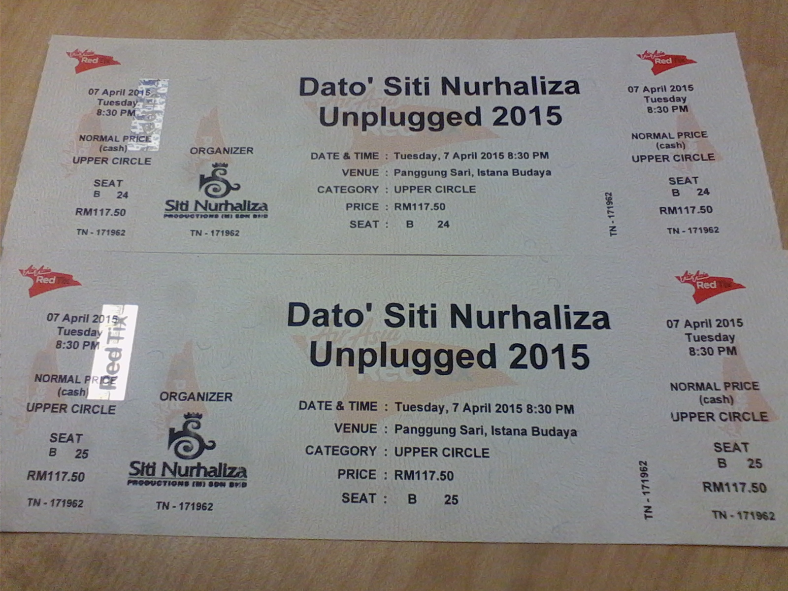 A pair of concert tickets for "Dato' Siti Nurhaliza Unplugged 2015" that was held at Istana Budaya on April 7, 2015.